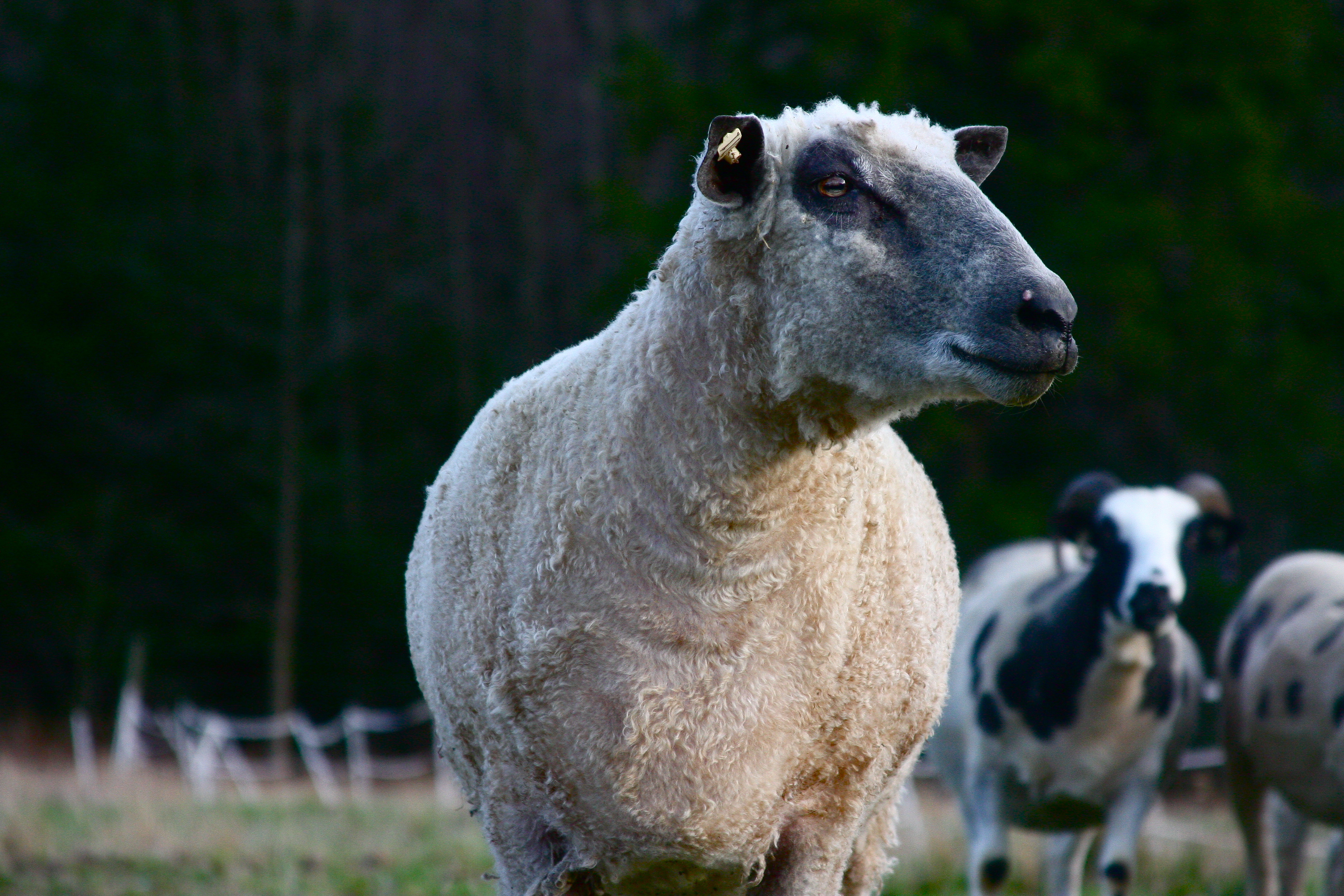 A recently shorn Wensleydale sheep in the U.S.